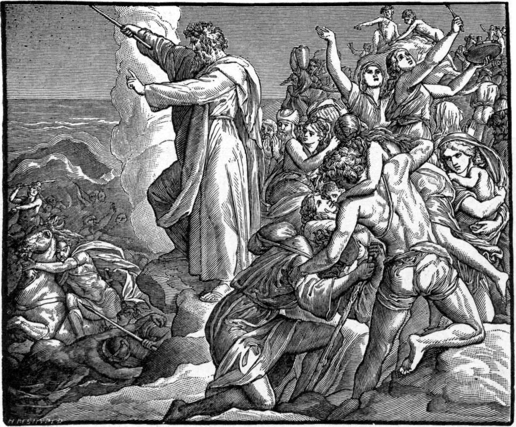 The Water Came on Pharaoh and His Soldiers. Caption: "Moses is standing on the shore of the sea. He and all the Israelites have just come out of King Pharaoh's land. They had to come across the sea. But they did not come across in boats. They walked through the sea. For the water went away from that place so that they could walk on the bottom of the sea. But when wicked Pharaoh and his soldiers followed after them to make them go back again, then the water came on Pharaoh and his soldiers, and drowned them all. God made the water come on them and drown them, but he did not let it drown the Israelites." Illustration from the 1897 Bible Pictures and What They Teach Us: Containing 400 Illustrations from the Old and New Testaments: With brief descriptions by Charles Foster